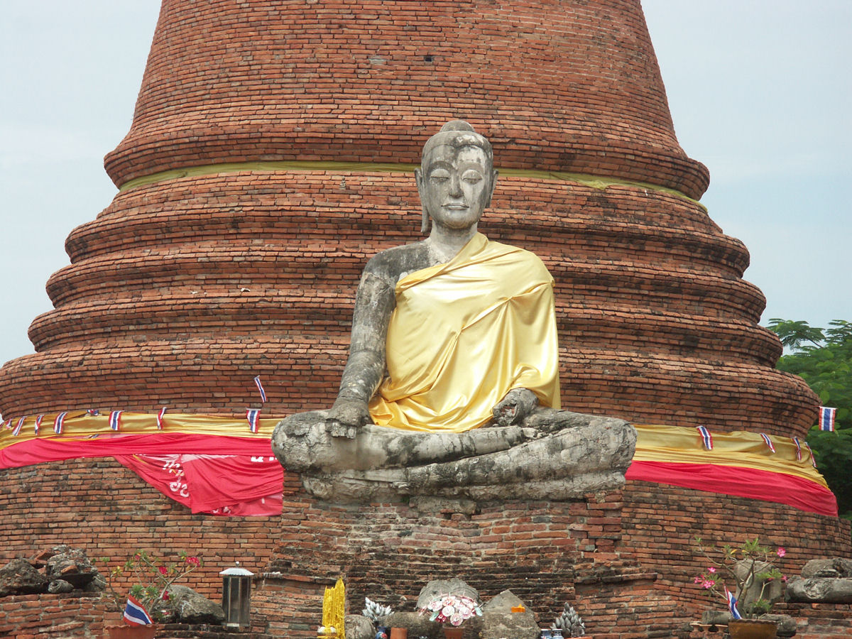 Wat Worrachettharam (วัดวรเชษฐาราม), Ayutthaya, Thailand